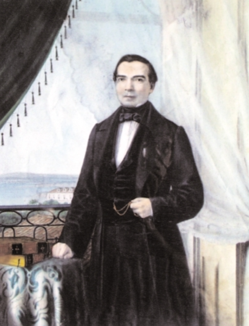 Frederico Guilherme da Silva Pereira (1806-1871)